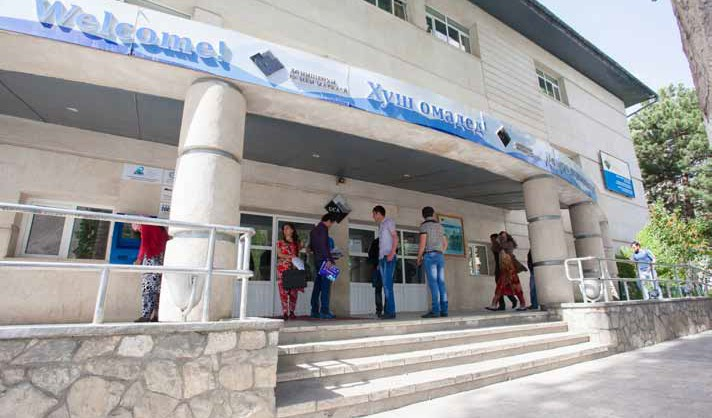 UCA SPCE Schools